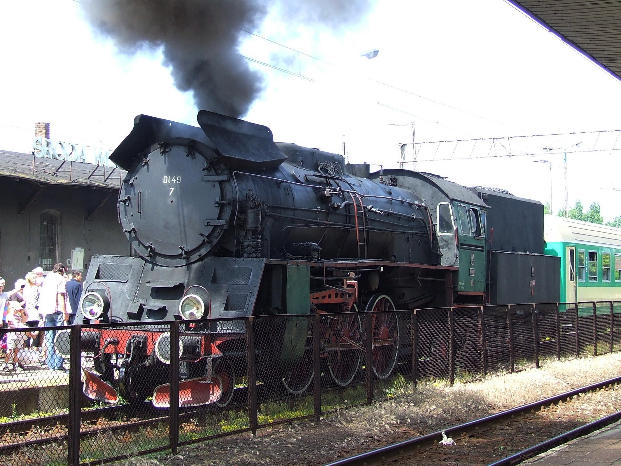 Locomotive Ol49-7 in Sroda Wlkp.